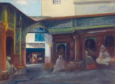 Nicolae Gropeanu - Cafenea din Alger, pastel pe lemn